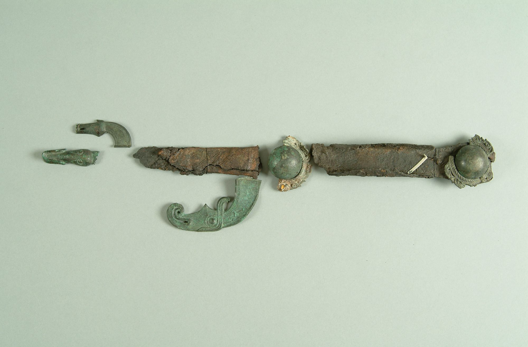 Iron fittings made of iron for either fittings on the front of the shield or more likely, part of the handle. Coated with bronze plaque with braided ribbon ornament.